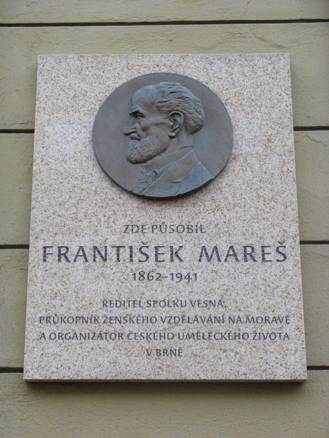 Memorial plaque of František Mareš, Brno - Czech Republic